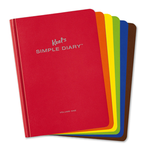 Fan image of the different Simple Diary covers.